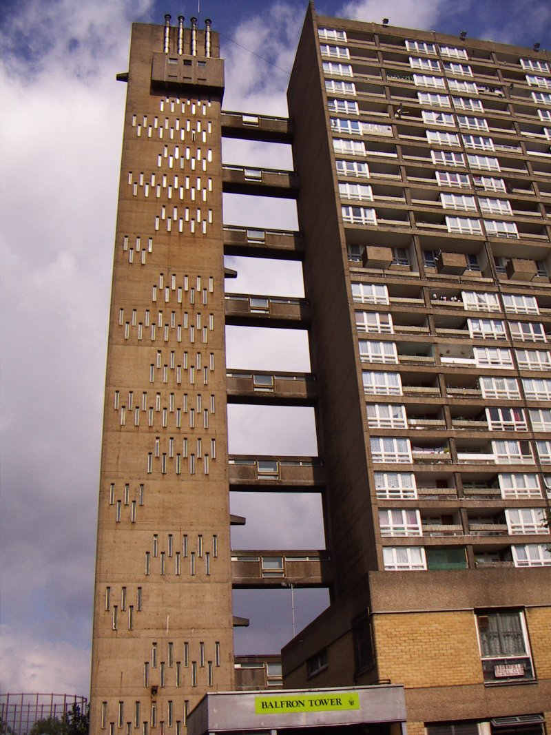 Balfron Tower in London. Photo by John Arundel, July 2005.